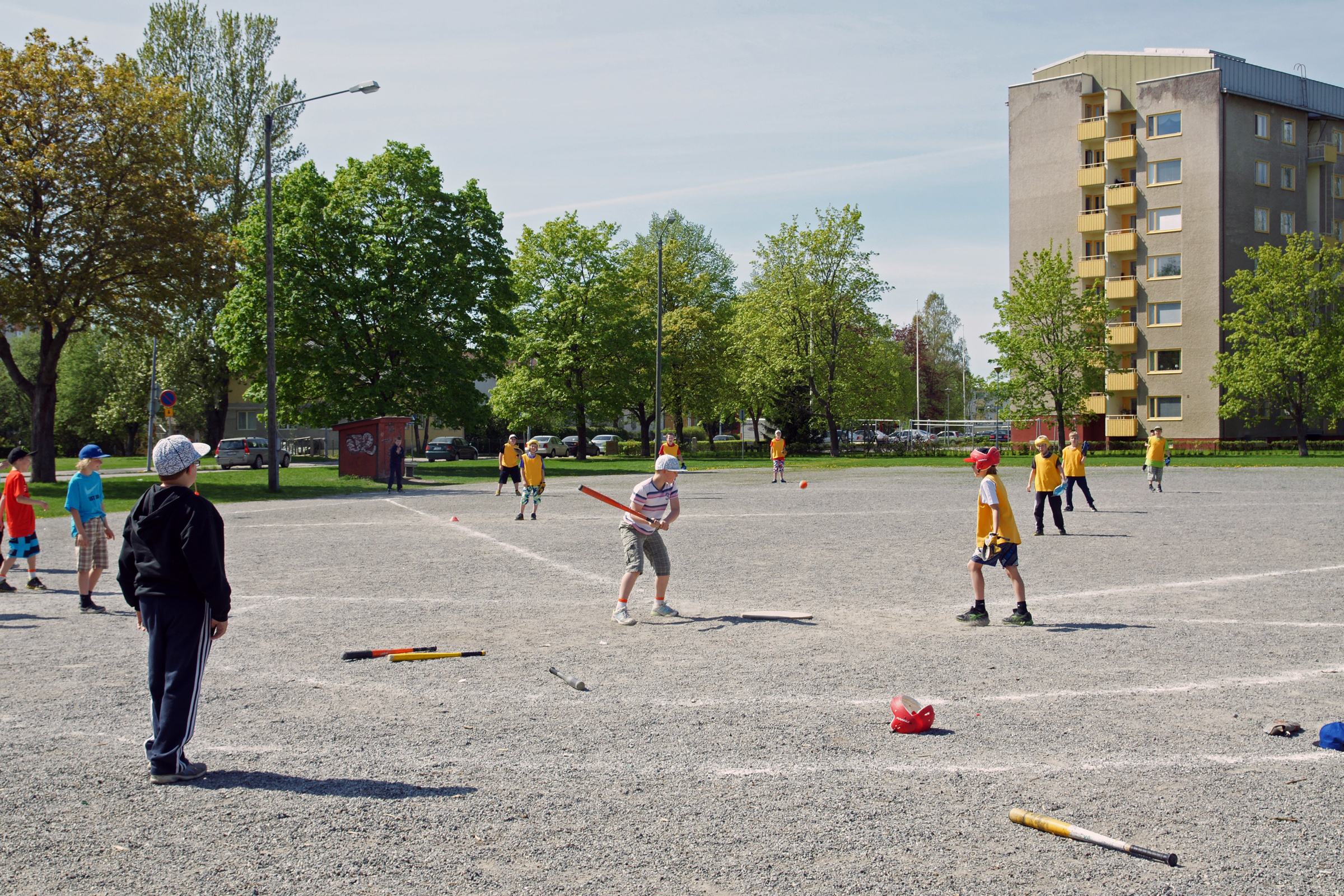 School pesäpallo in Pori, Finland.